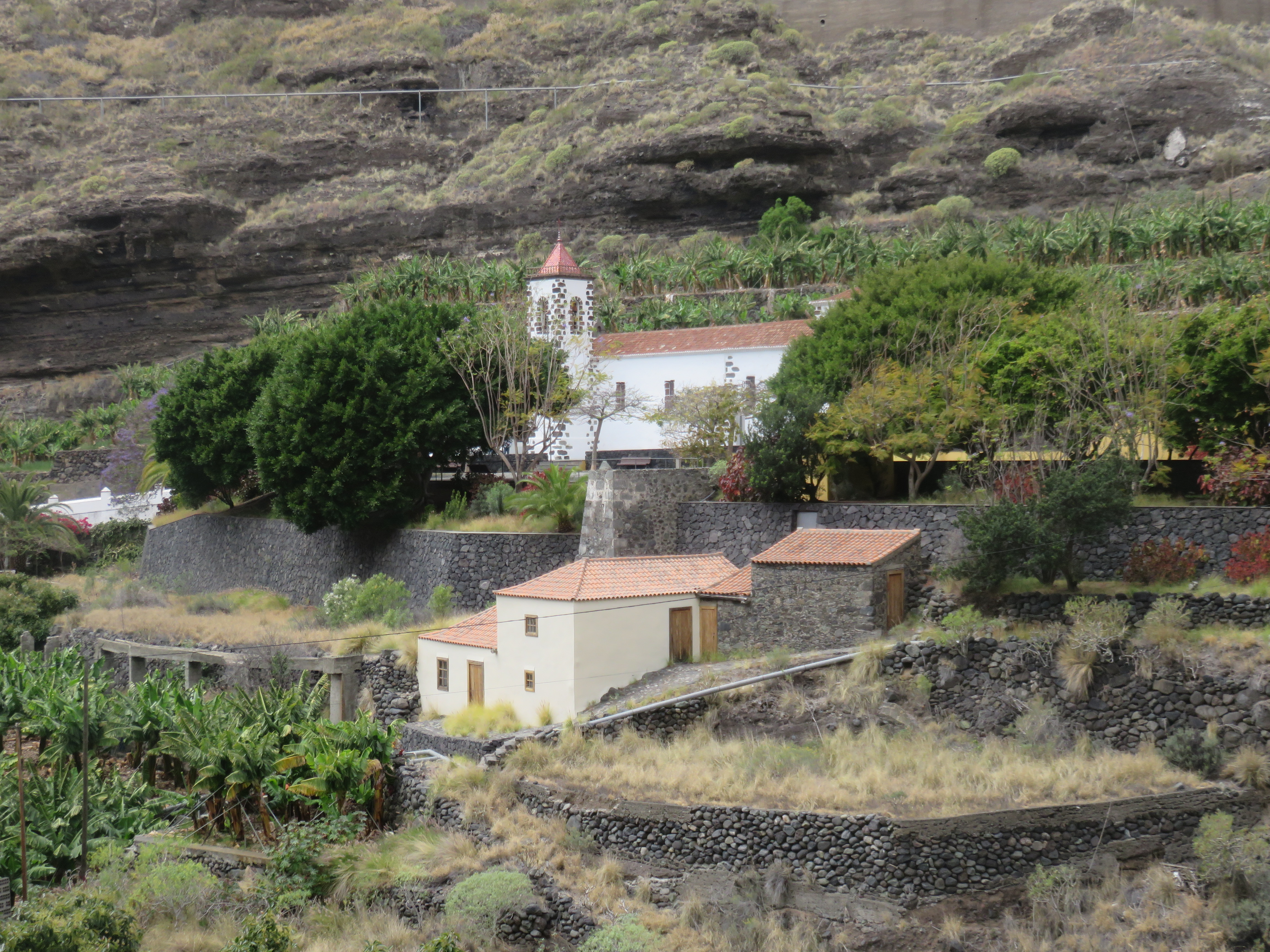 El Molino de agua in Barranco de Las Angustias